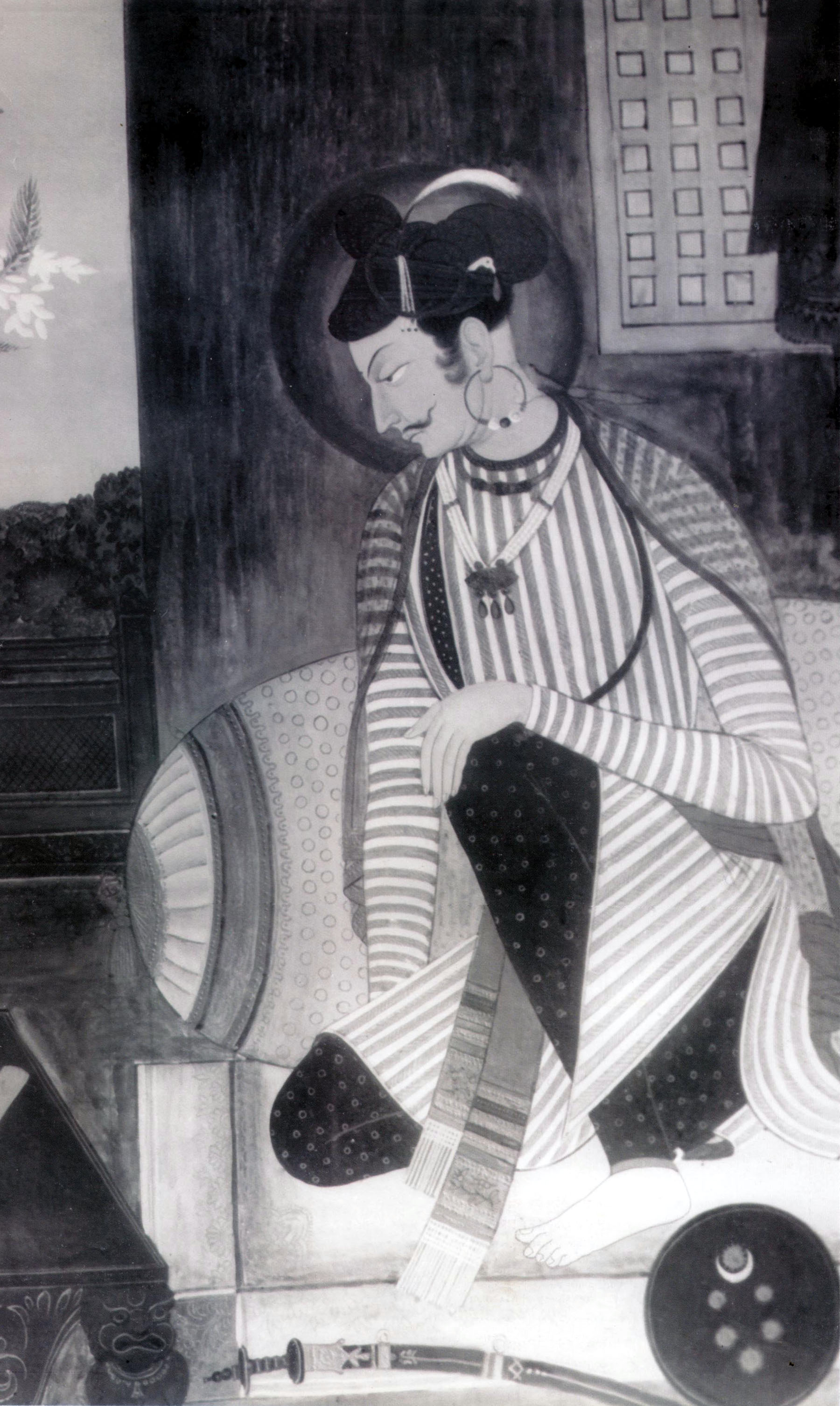 Scan of painting of Mahindra Malla, king of Kathmandu, Nepal from 1560-74 AD.